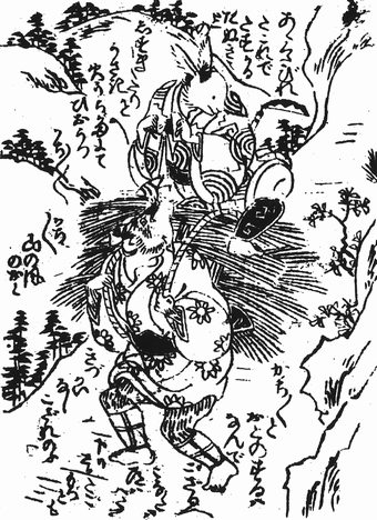 Kachi-kachi Yama